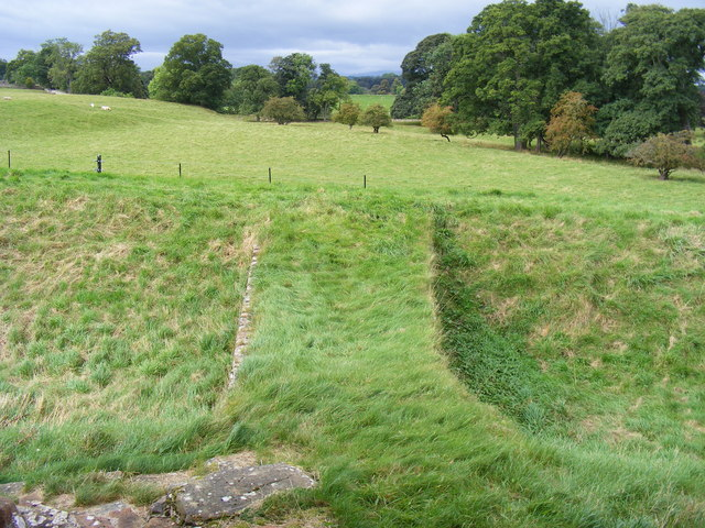 Bridge across moat at Brougham Castle